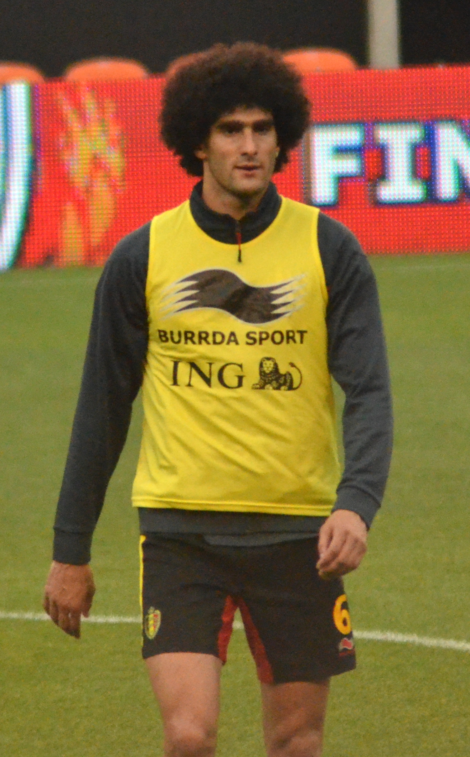 FirstEnergy Stadium Home of the Cleveland Browns